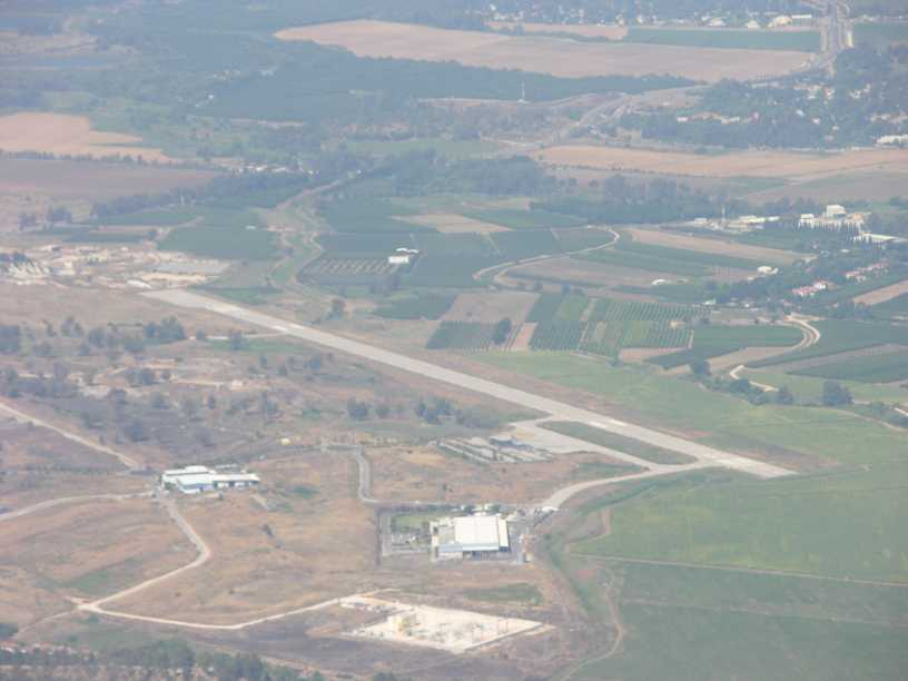 Airport of Kiryat Shmona, seen from the Manara cliffs (June 2007)